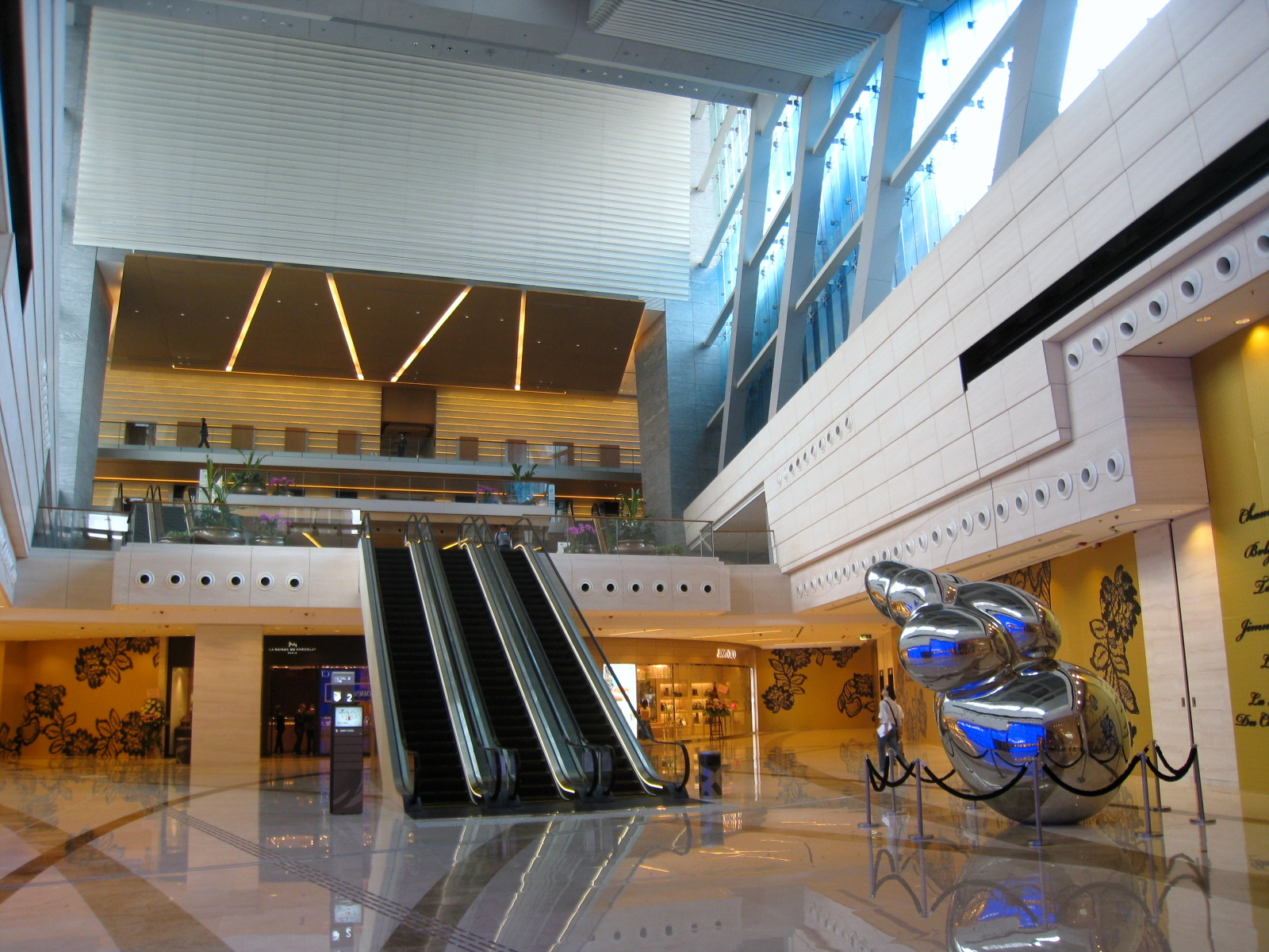 Access to International Commerce Centre 環球貿易廣場